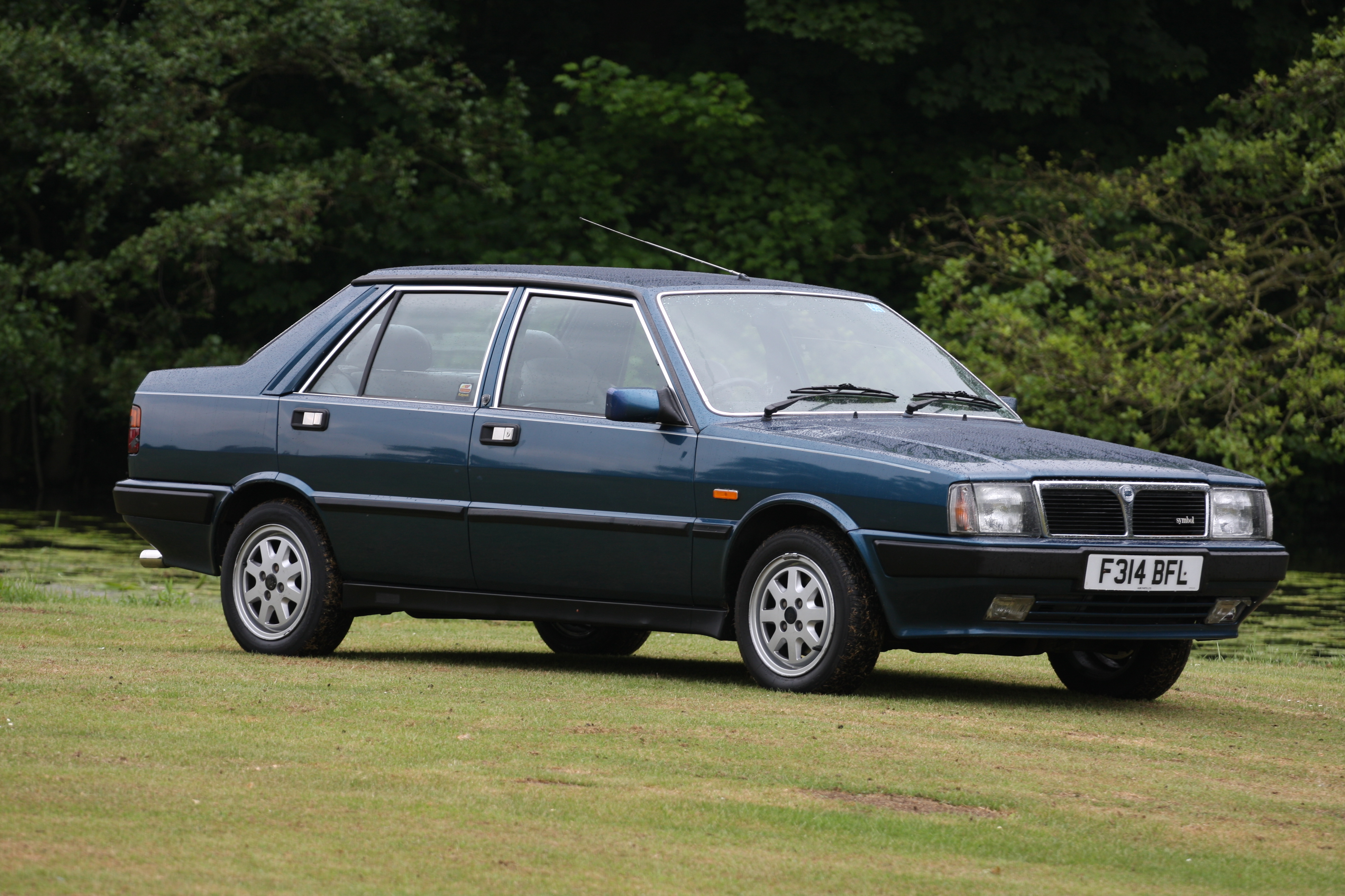 Auto Italia Stanford Hall June 2010 my 1989 Lancia Prisma